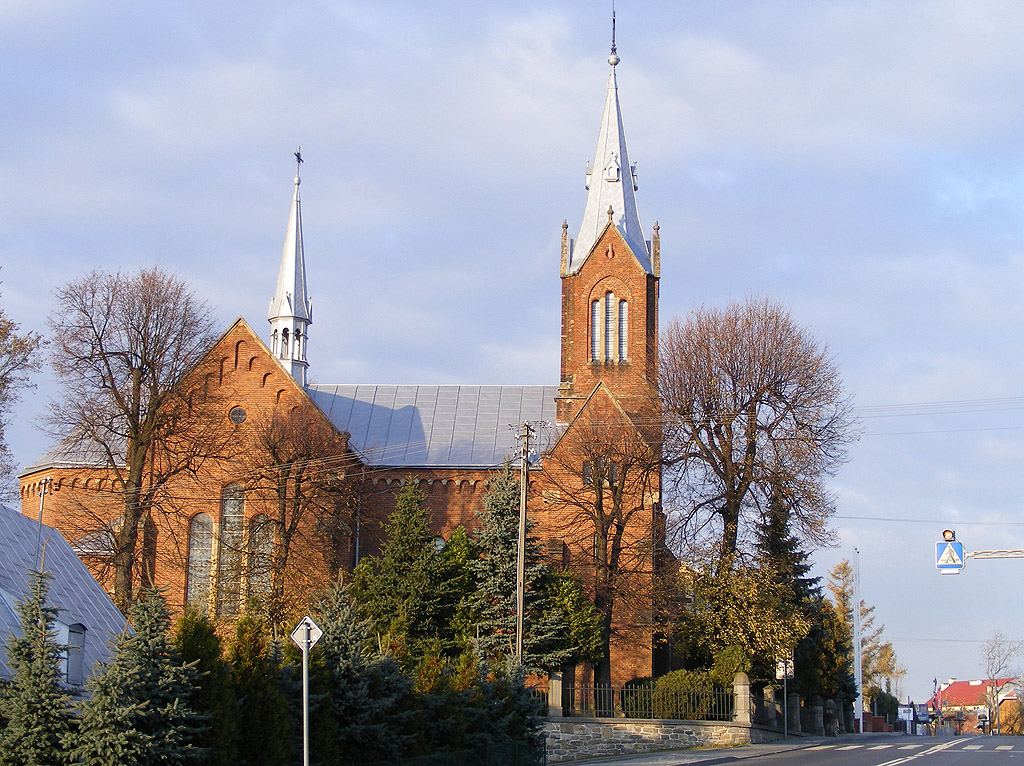 Parish Church in Miejscer Piastowe.